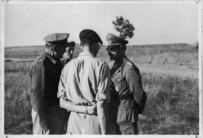 General von Liebenstein, GOC 164 Light African Division, with General Bernard Freyberg, GOC NZ Division, and Brigadier Graham after the surrender of Axis forces in Tunisia during World War II. Photograph taken circa 13 May 1943 by M D Elias.